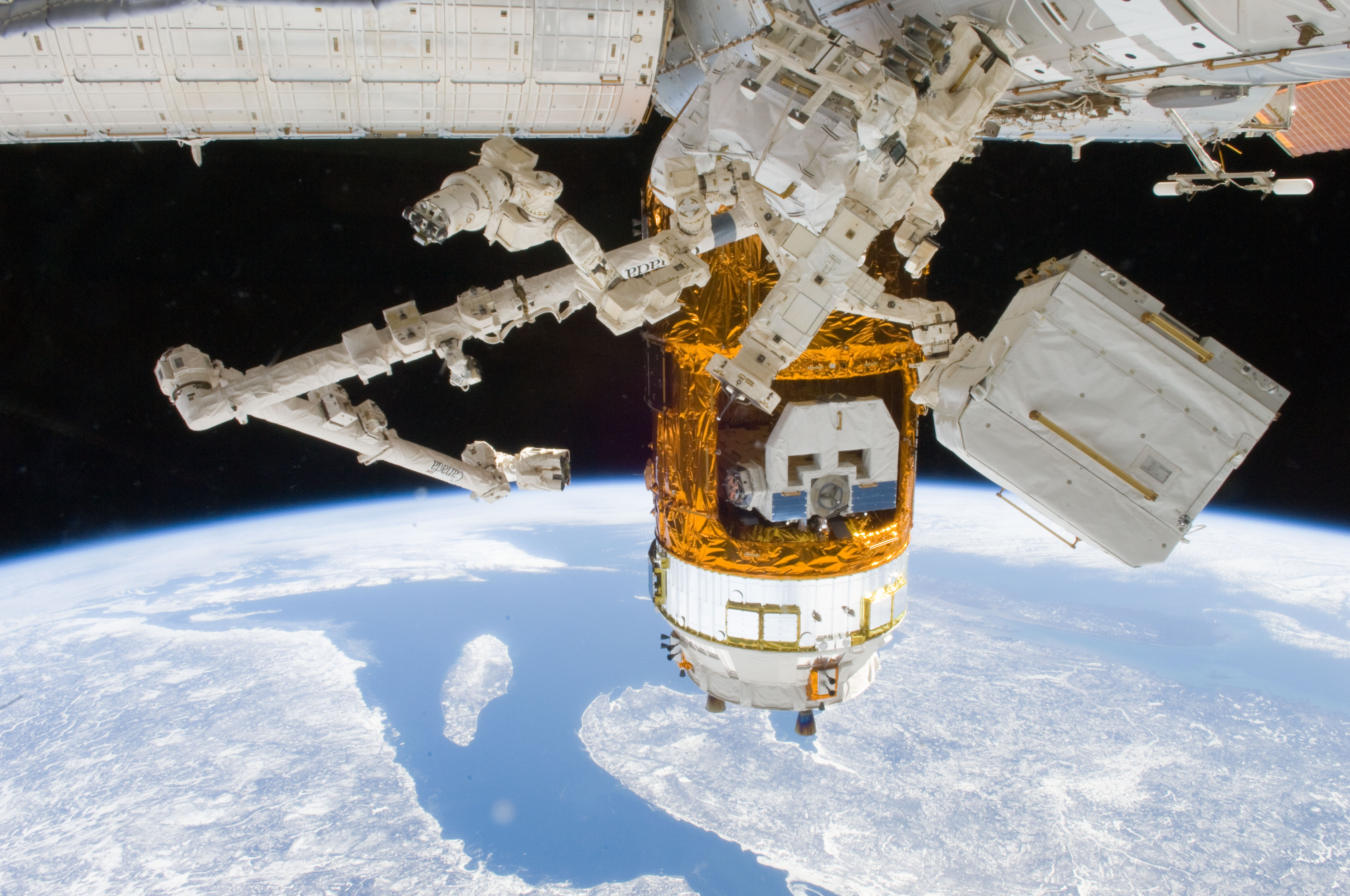 The docked Kounotori2 H-II Transfer Vehicle (HTV-2), Canadarm2 ; and Canadian-built Dextre, also known as the Special Purpose Dextrous Manipulator (SPDM), are pictured as photographed by an Expedition 27 crew member, using a camera equipped with a 17mm lens, aboard the International Space Station. The scene on Earth, some 220 miles below, includes the Gulf of St. Lawrence leading to the St. Lawrence Seaway. North is toward the lower left corner. The large Island in the lower left quadrant is Anticosti Island. Nova Scotia, Bay of Fundy, New Brunswick and northern Maine are partially seen to the right side of the image and Quebec and Newfoundland and Labrador are shown on the left of the image.